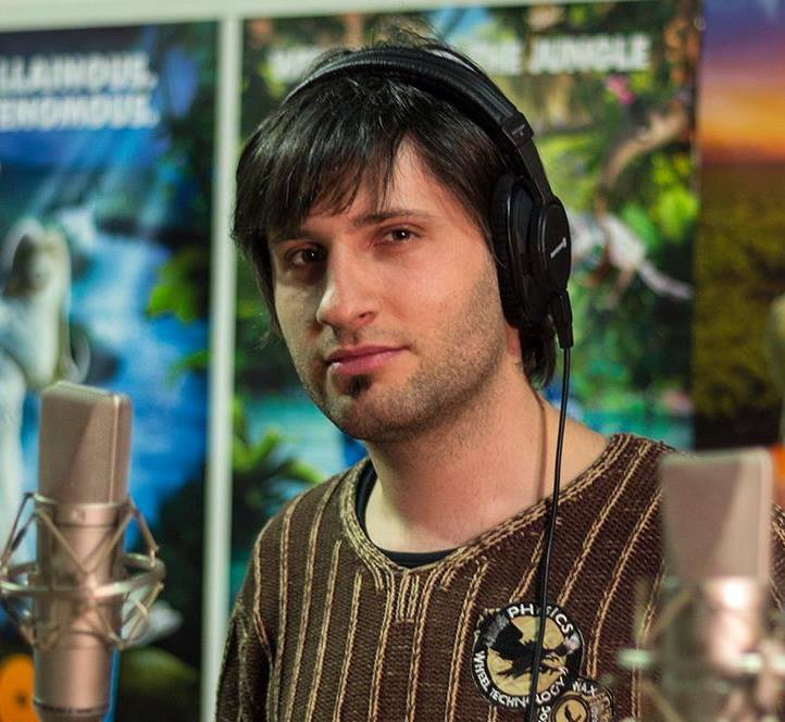 A picture of the actor and singer Momchil Stepanov